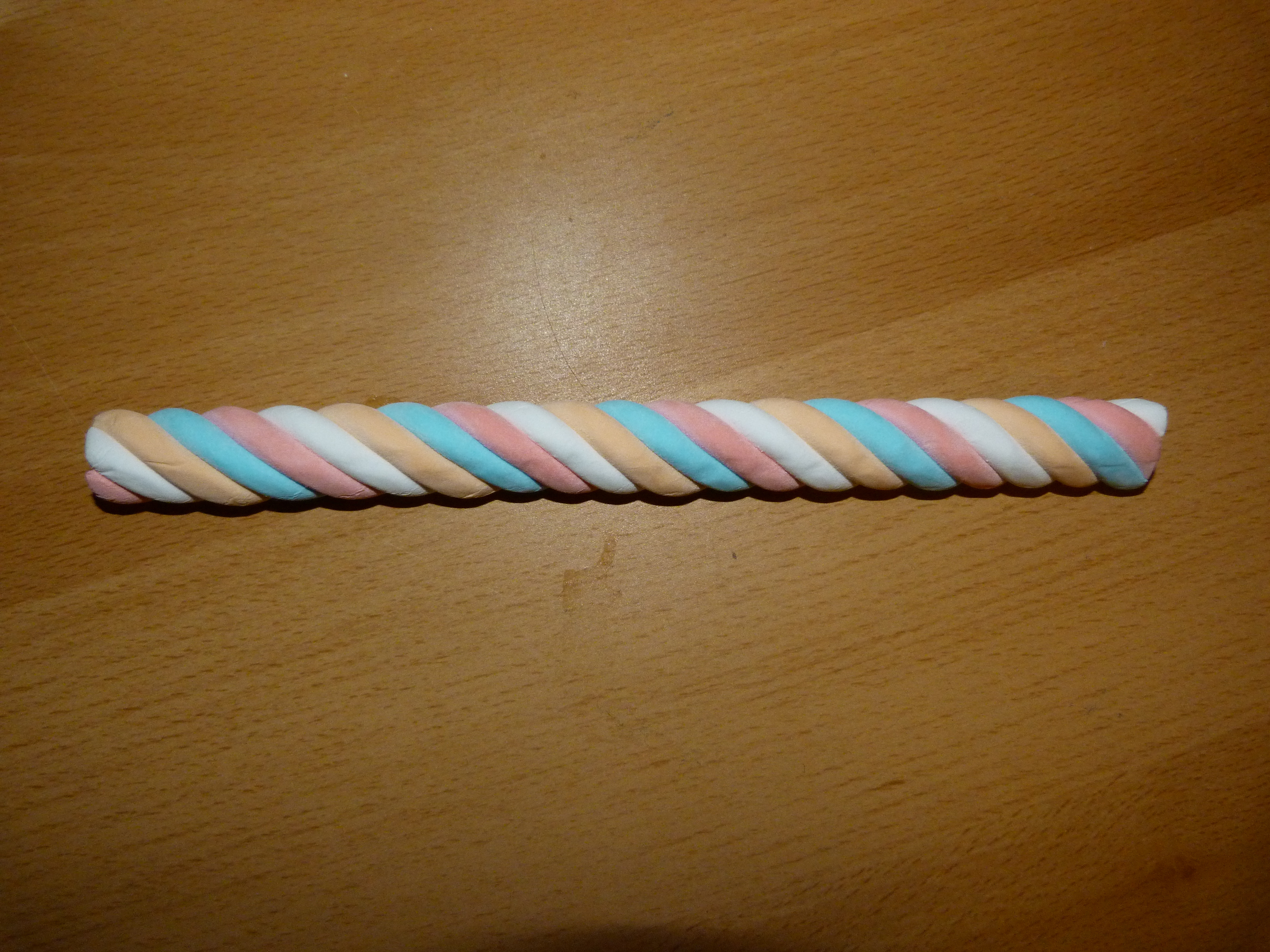 Flump with blue colour added